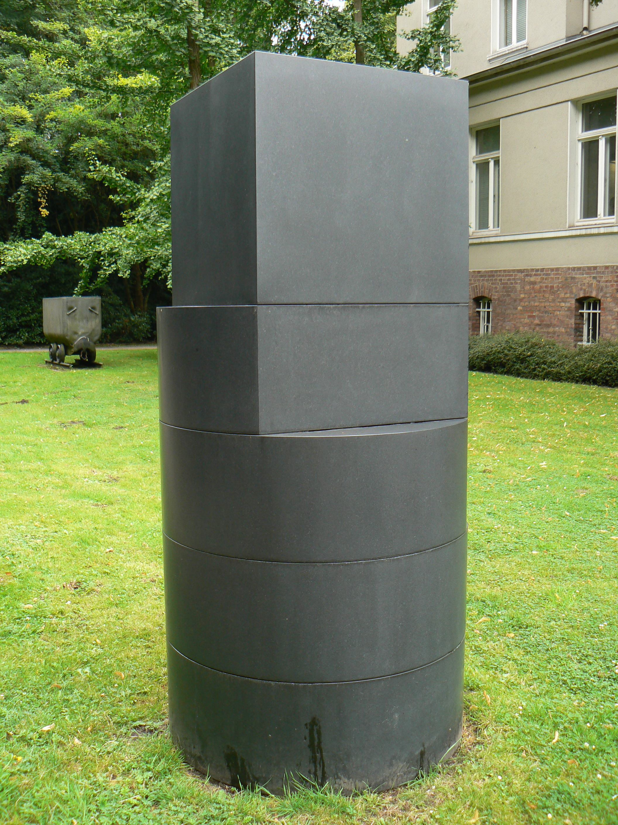 Sculpture in sculpturepark Quadrat Bottrop (Moderne Galerie) in Bottrop/Germany. Sculptor: Erwin Heerich Titel: Granitskulptur (1997)